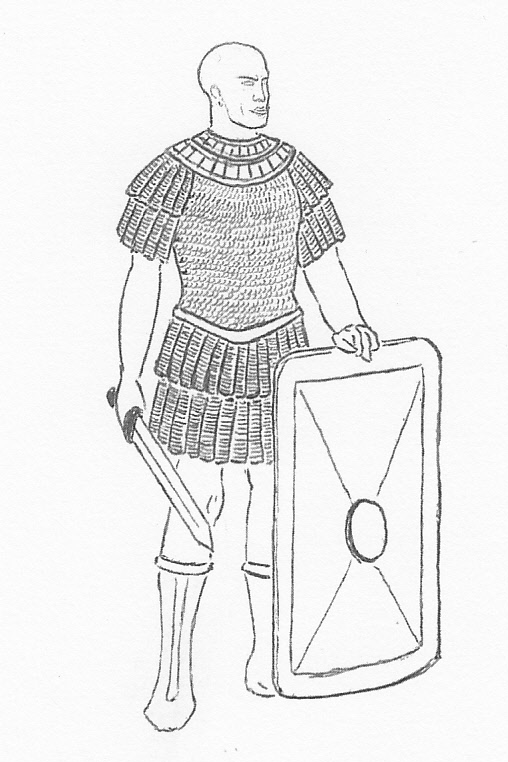 Probable reconstruction of a Machimos of the late Ptolemaic army (c. mid 1st century BCE). This reconstruction is based both on an original terracotta fragment and on another reconstruction itself based on the fragment (Nick Sekunda, Seleucid and Ptolemaic Reformed Armies 168-145 BC - 2 - The Ptolemaic Army, Montvert Publications, 1995, figg. 95 and 96 respectively).